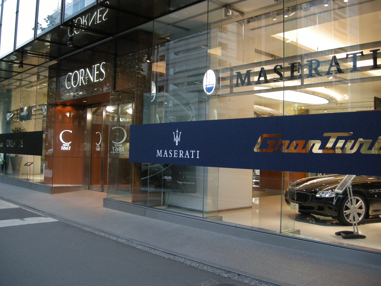 Cornes(Maserari and Bentley Dealer) Aoyama Showroom in Aoyama,Tokyo